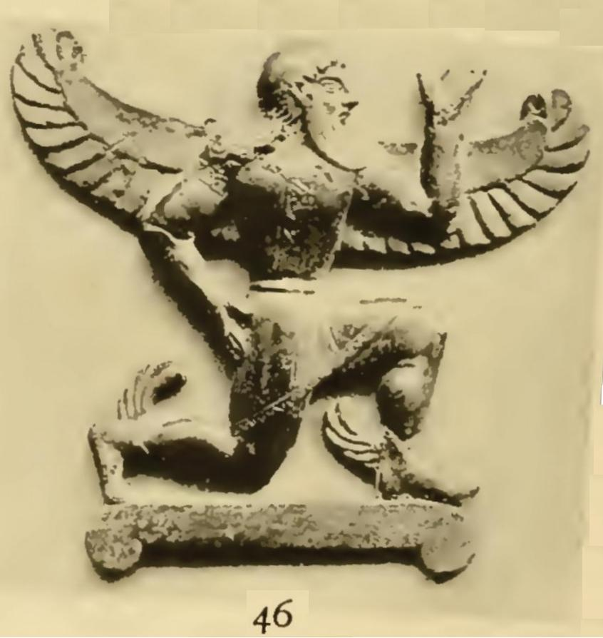 relief of Boreas